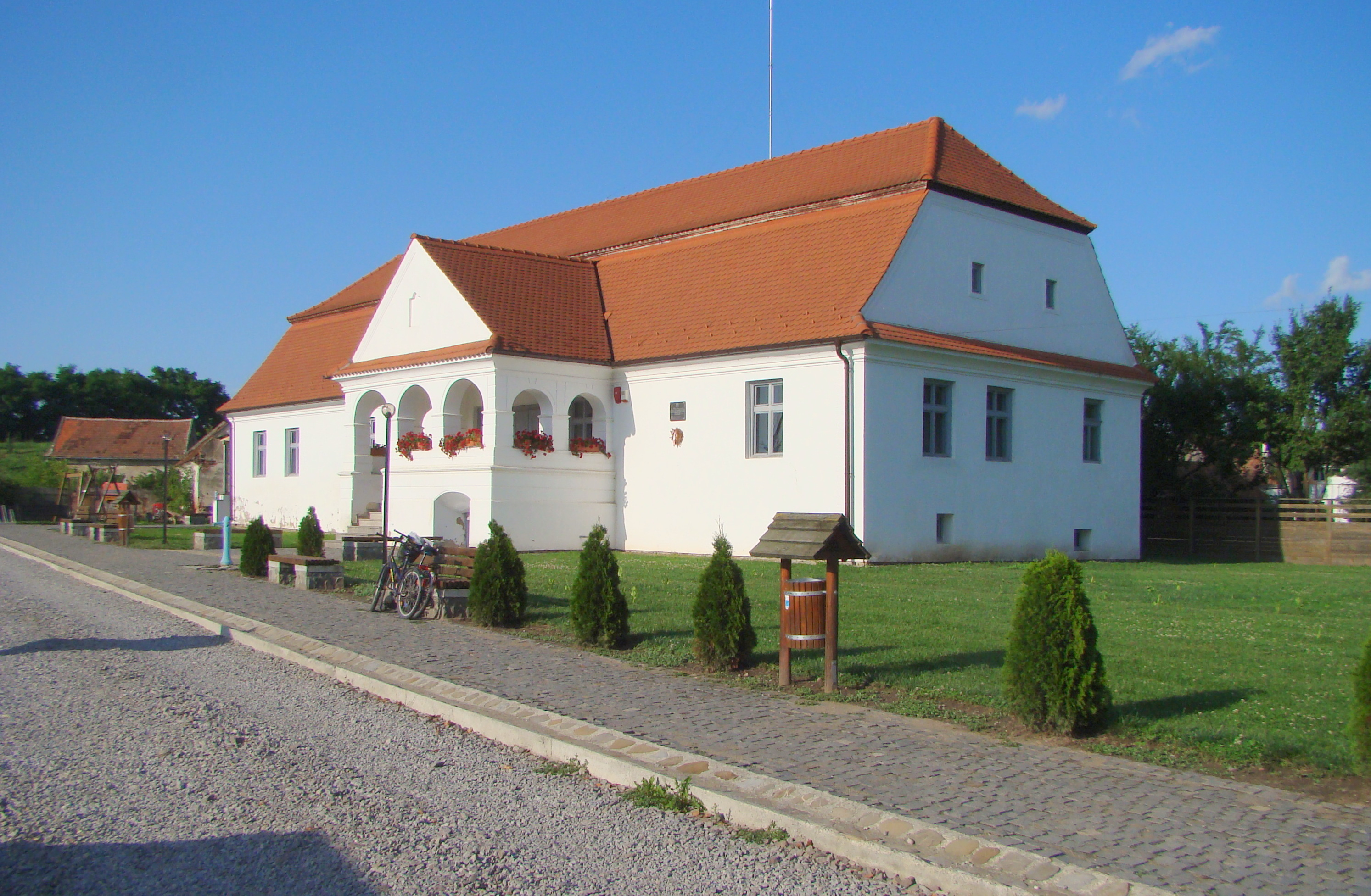 Antos mansion in Reci, Covasna County, Romania